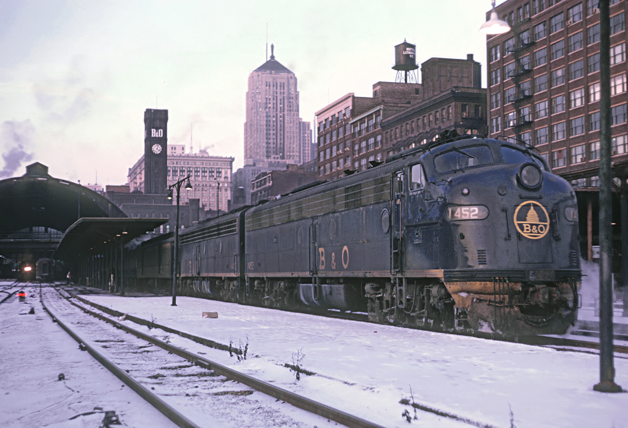 B&O 1452 (E8A) with Train 6, The Capitol Limited, waiting to depart Grand Central Station, Chicago, IL on December 26, 1967.